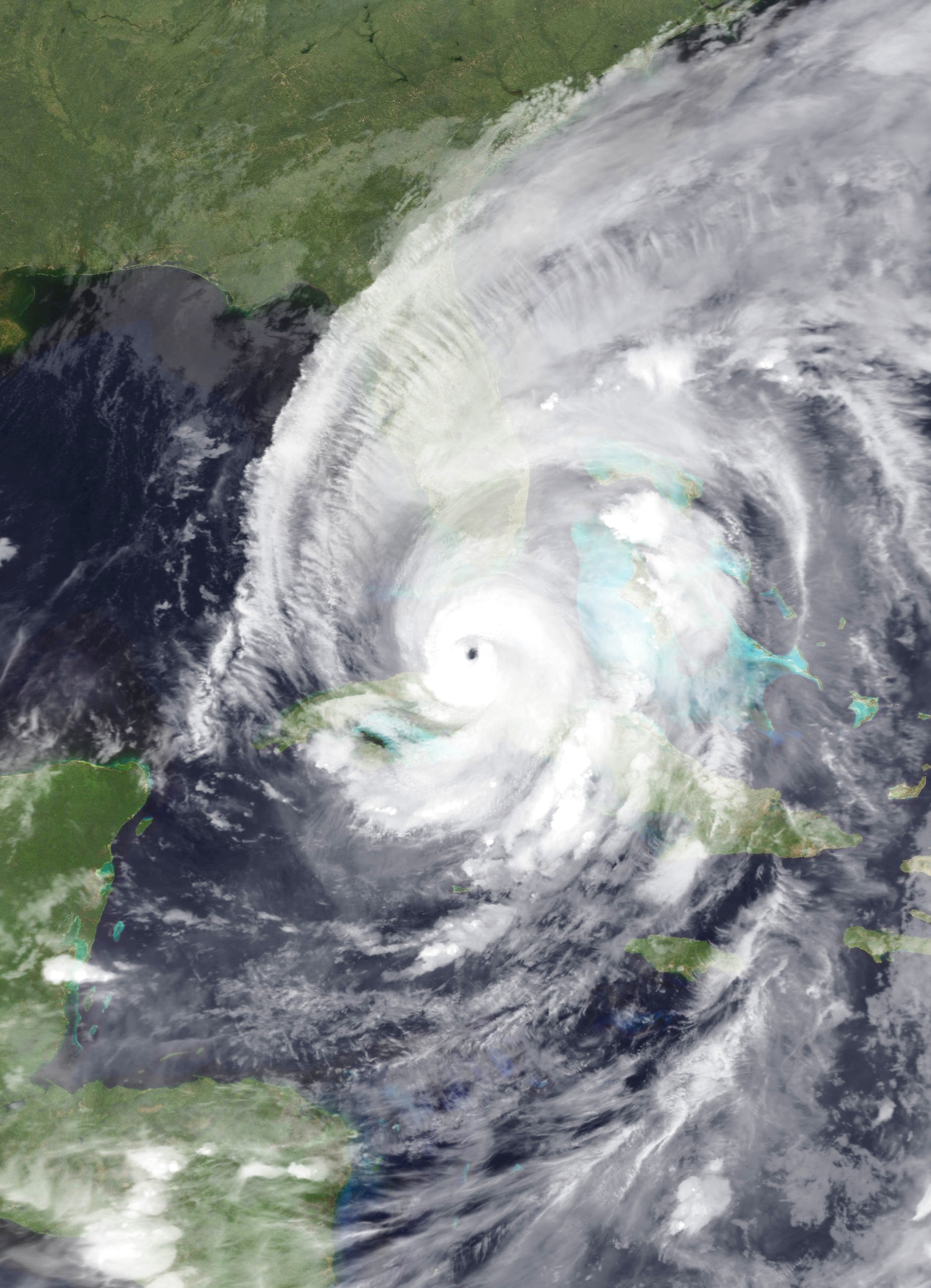 Hurricane Irma approaching the Florida Keys as a large and powerful Category 4 hurricane.